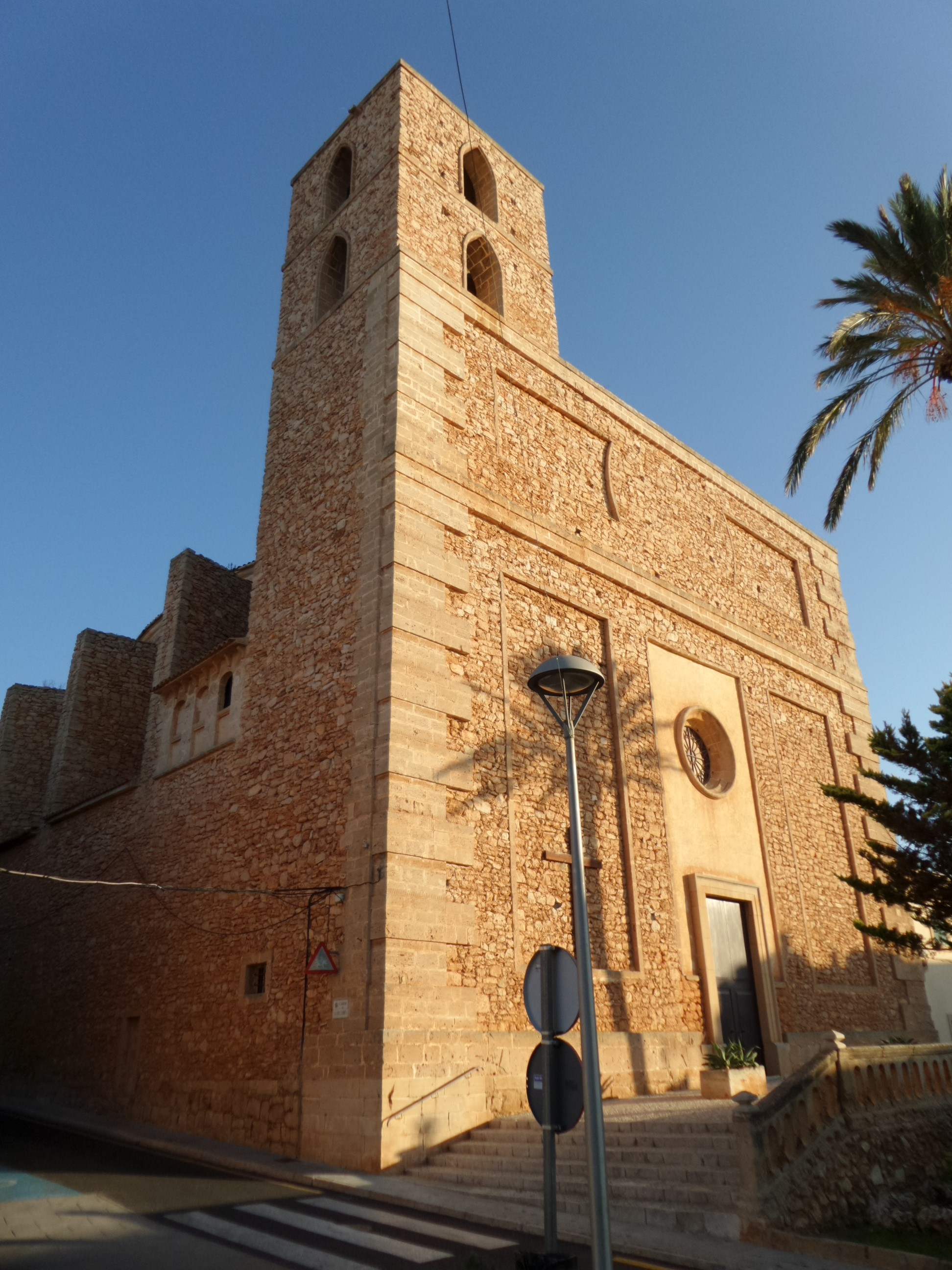 S'Horta (Felanitx)